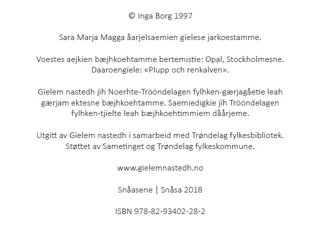 Colophon to the south sami edition of the childrens book Plupp och renkalven / Pluppe jïh miesie [Plupp and the reindeer's calf] by Inga Borg